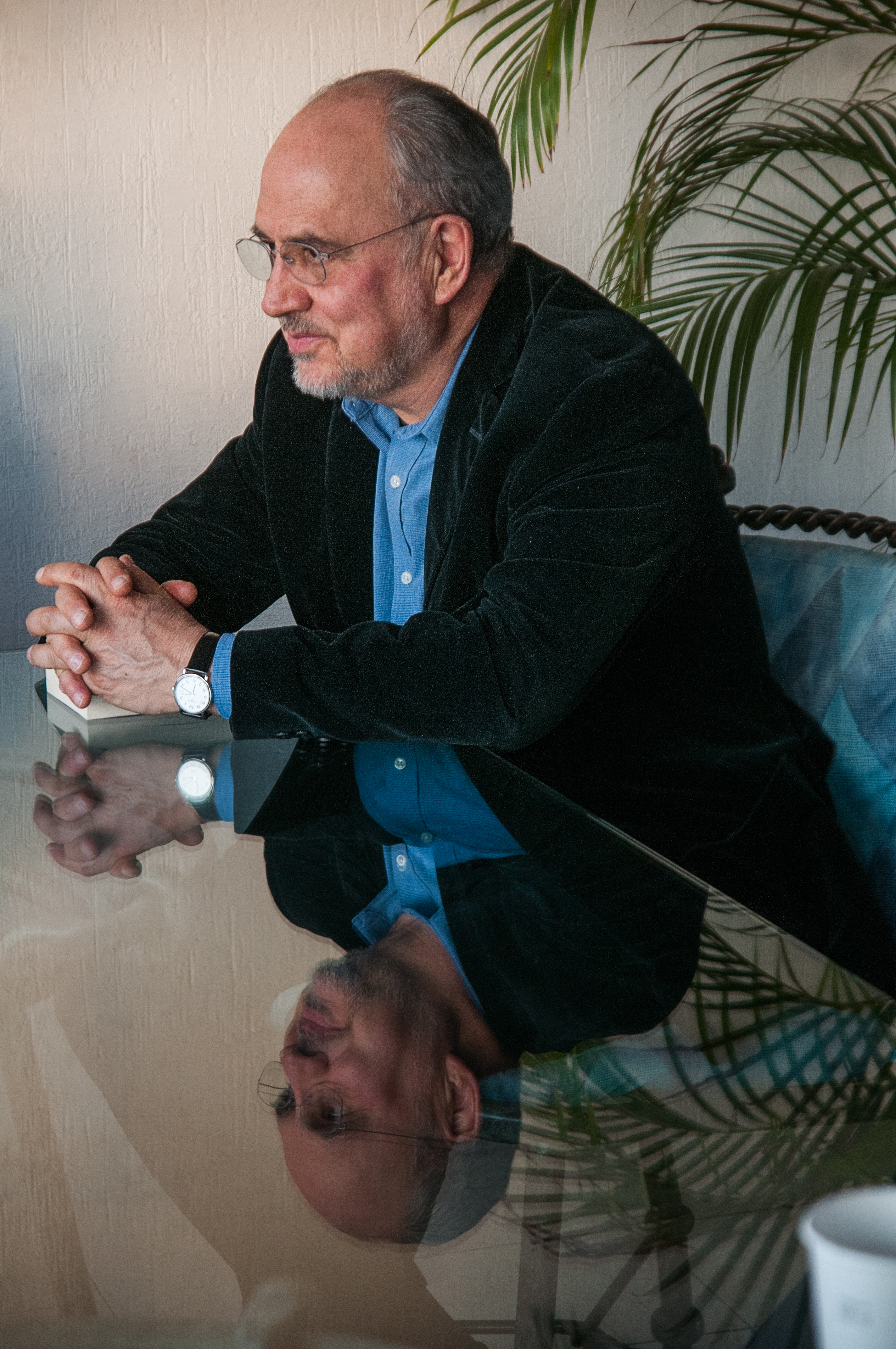 Lorenzo Meyer is a Mexican historian and emeritus professor at El Colegio de México.